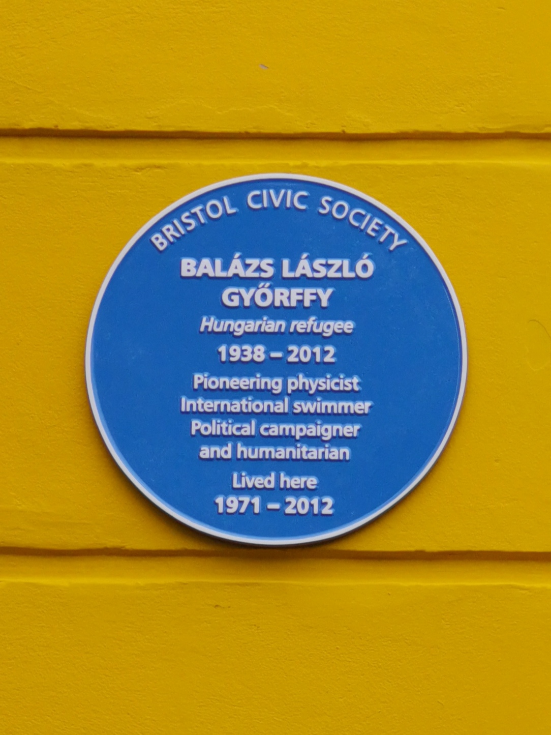 The text on the plaque reads: "Bristol Civi Society. Balazs L. Gyorffy, Hungarian refugee (1938-2012), Pioneering physicist, International swimmer, Political campaigner and humanitarian, Lived here, 1971-2012.